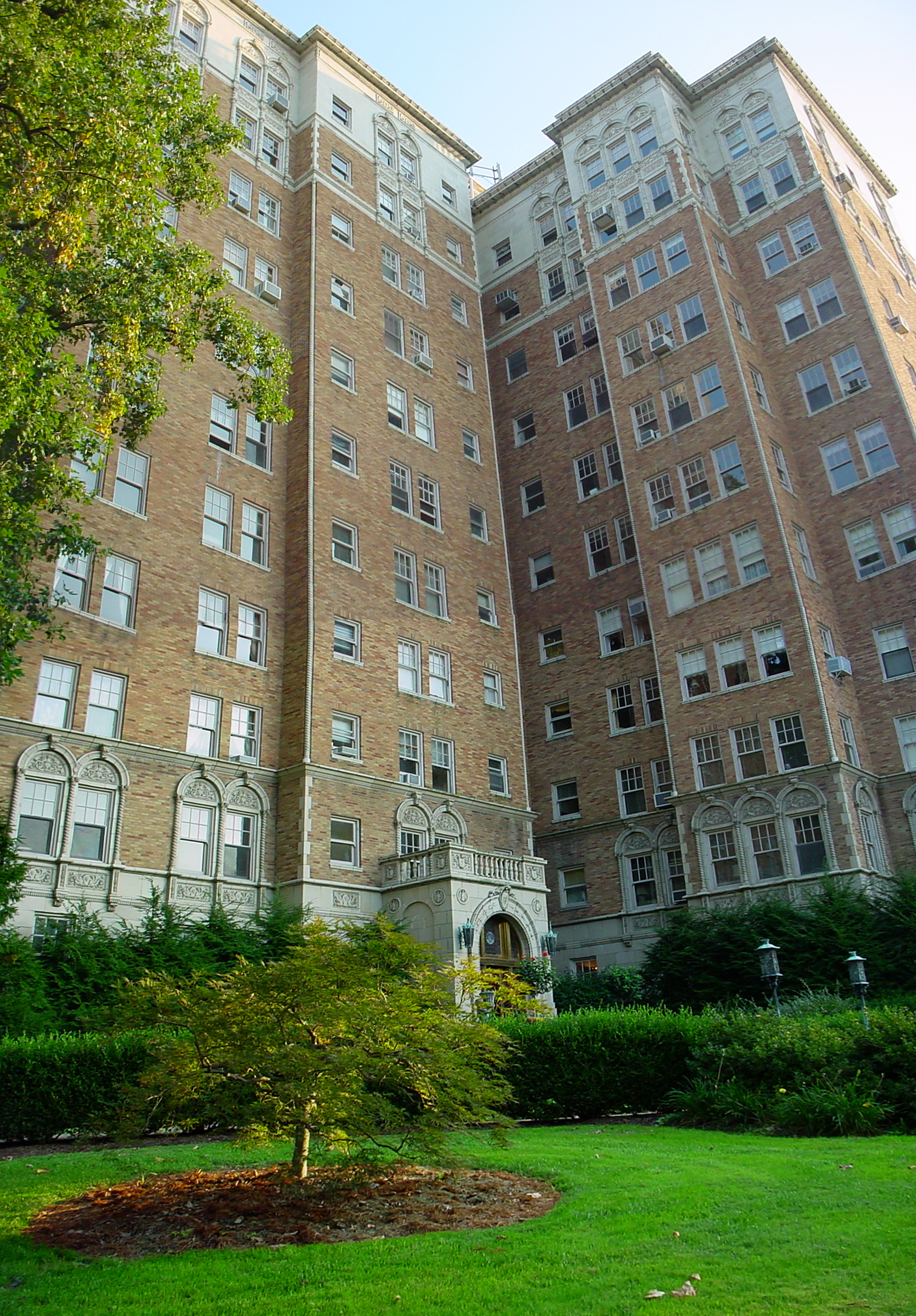 Entrance to The Commodore Condominiums